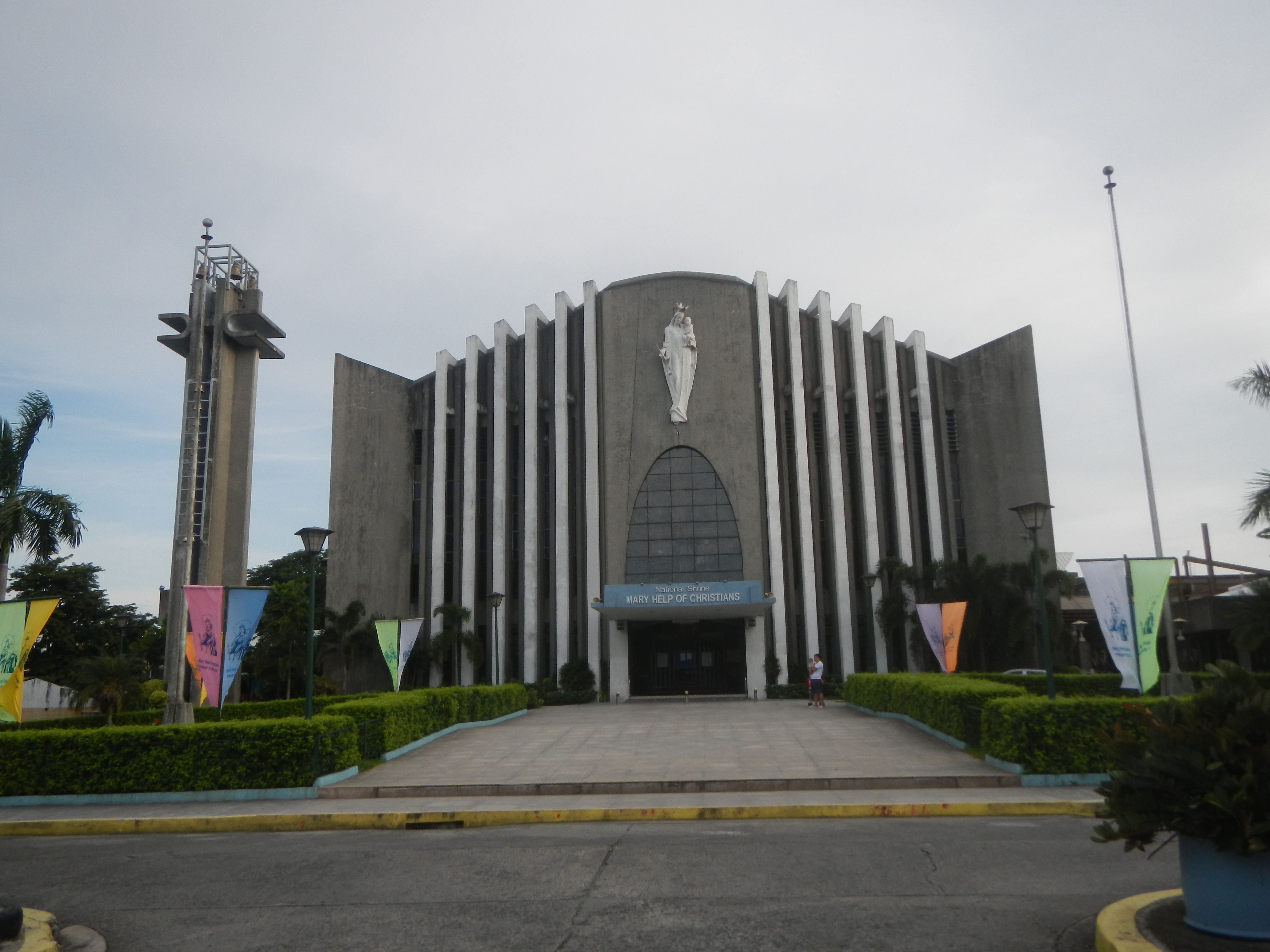 Swing and Carillon Bells Mary Help of Christians Parish & National Shrine (Better Living Subdivision, Don Bosco, Parañaque City) Swing and Carillon Bells Blessed on January 19, 2018 Marker on August 27, 2011 in Legislative districts of Parañaque 1st District, Districts and barangays Don Bosco 14°28'48"N 121°1'31"E, Parañaque City from Doña Soledad Avenue (Note: Judge Florentino Floro, the owner, to repeat, Donor Florentino Floro of all these photos hereby donate gratuitously, freely and unconditionally Judge Floro all these photos to and for Wikimedia Commons, exclusively, for public use of the public domain, and again without any condition whatsoever).